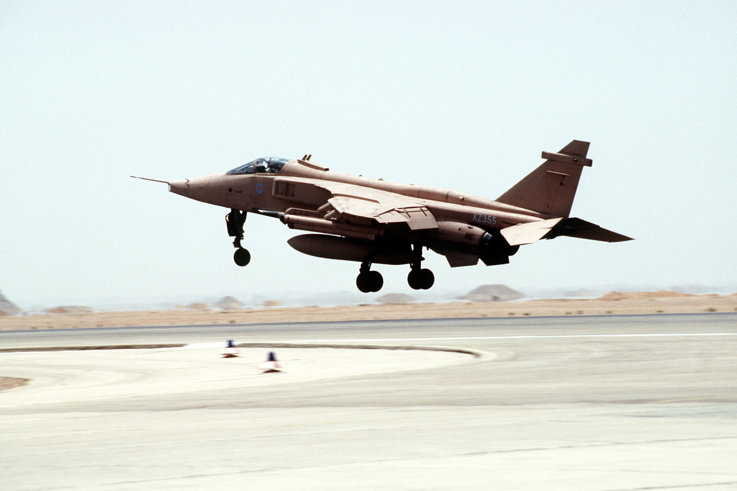 A Royal Air Force SEPECAT Jaguar GR1 aircraft (s/n XZ355) from No. 41 Squadron, RAF, takes off (probably from Bahrain) during operation "Desert Shield" on 23 January 1991.